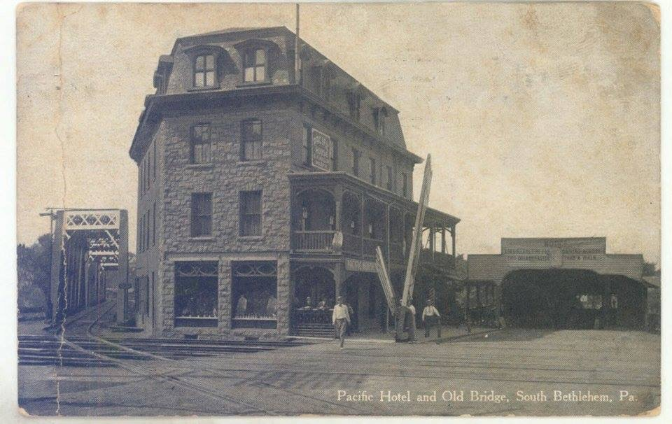 Image taken before 1923. Shows Pacific Hotel and southern entrance to covered bridge crossing Lehigh River. Replaced by Hill to Hill Bridge in 1924.